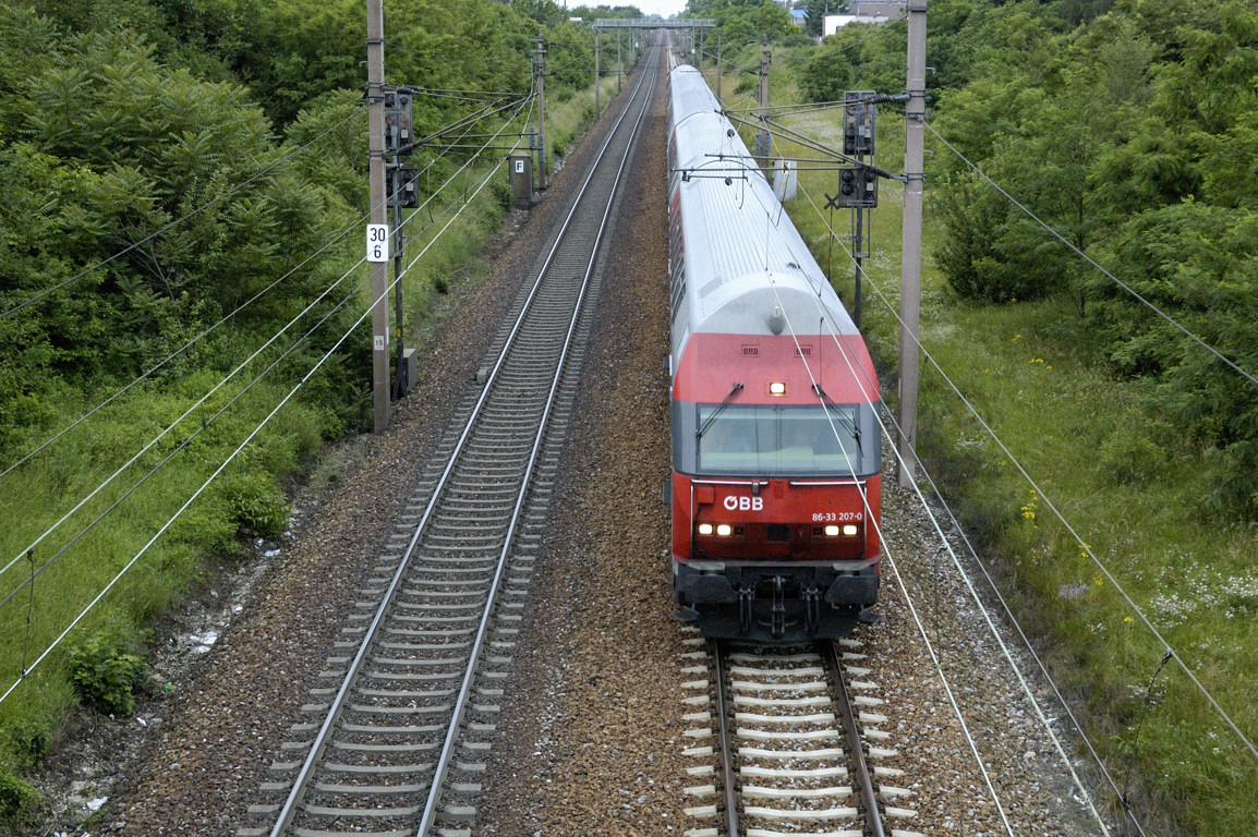 Nordbahn in Gänserndorf